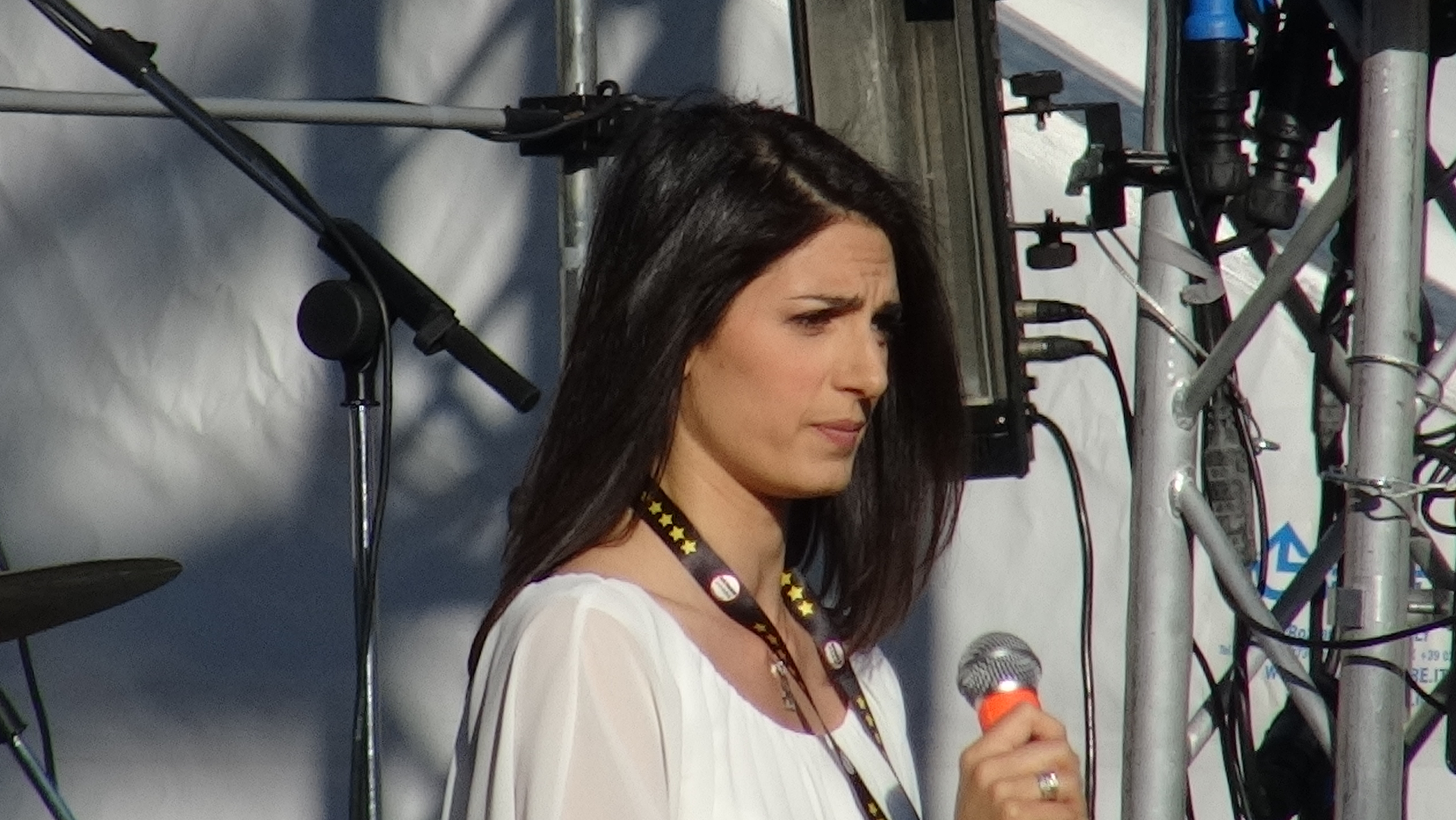 Virginia Raggi